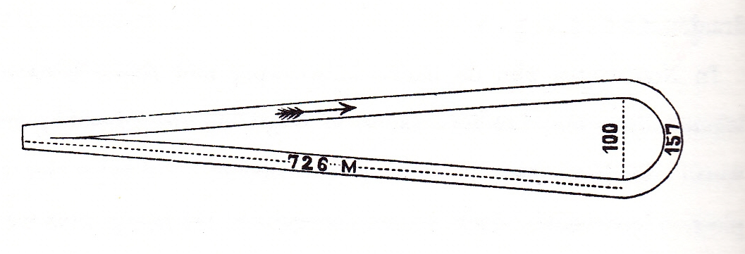 Ice skating track used during the internatinal skating match in january 28 on the Grote Wielen near Leeuwarden